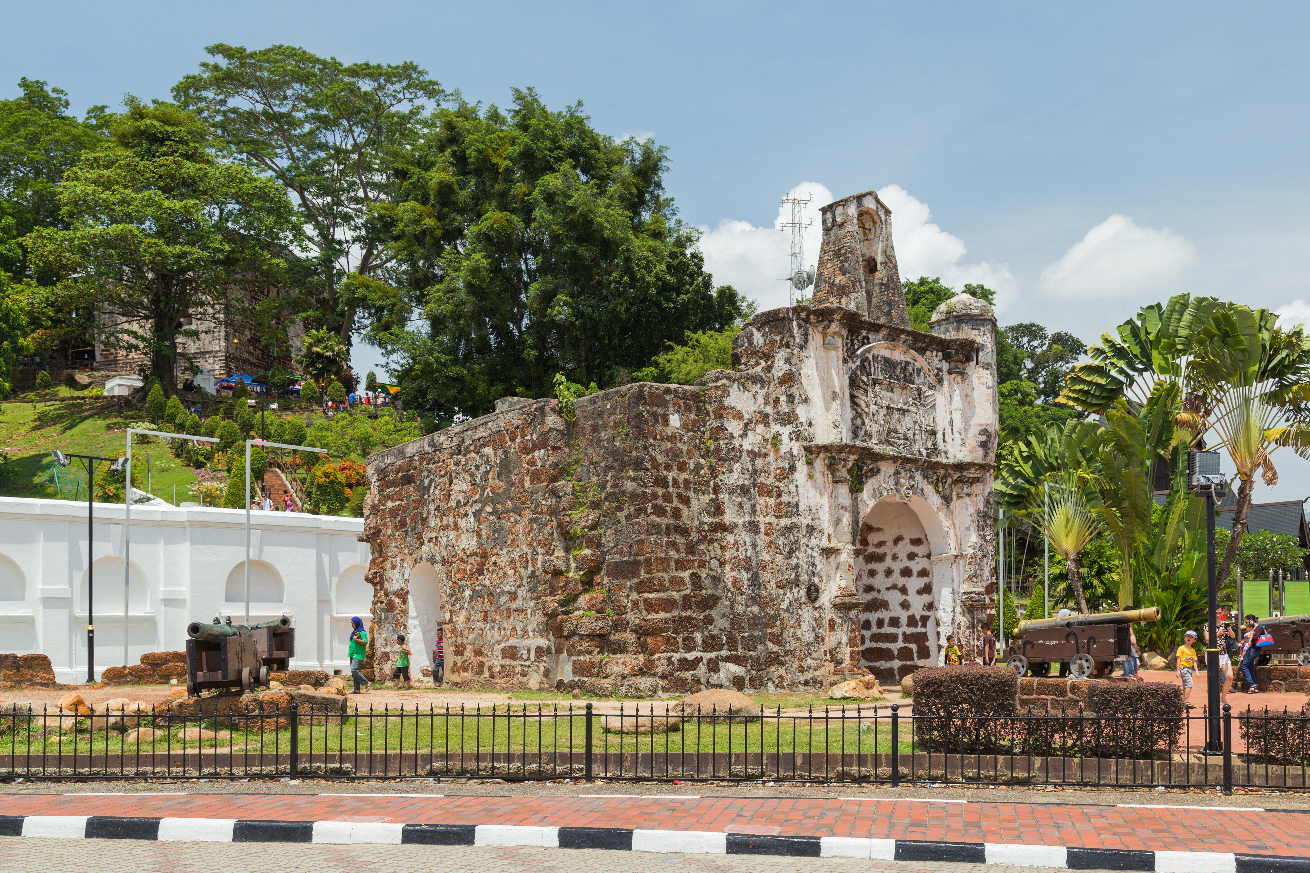 A Famosa - Porta de Santiago. Malacca City, Malacca, Malaysia.